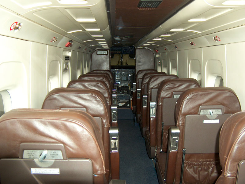 Do 228 of LGW, photo by Oliver Grzimek